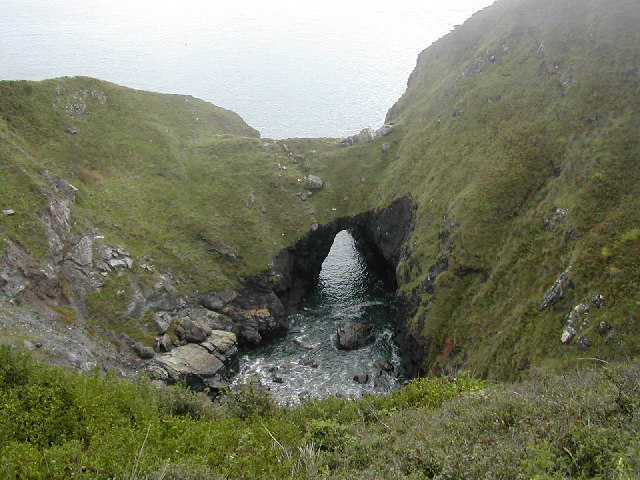 The Devil's Frying Pan. This cove is known as the devil's frying pan for the way the spray splashes up in storms.